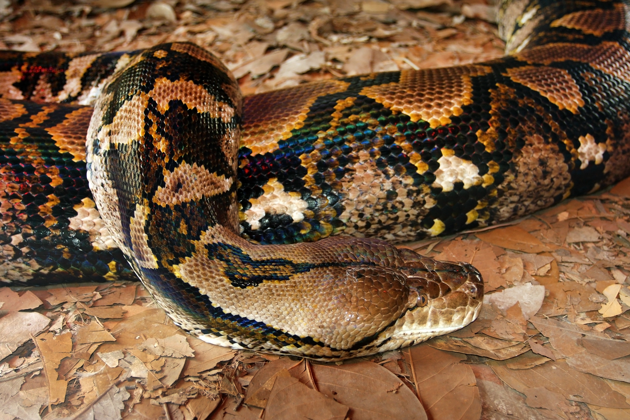 Carpet Snake